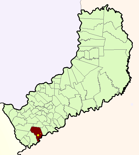 Map showing municipio of Santa María in Misiones Province, Argentina. Big yellow point is Santa María town, little one is La Corita town.